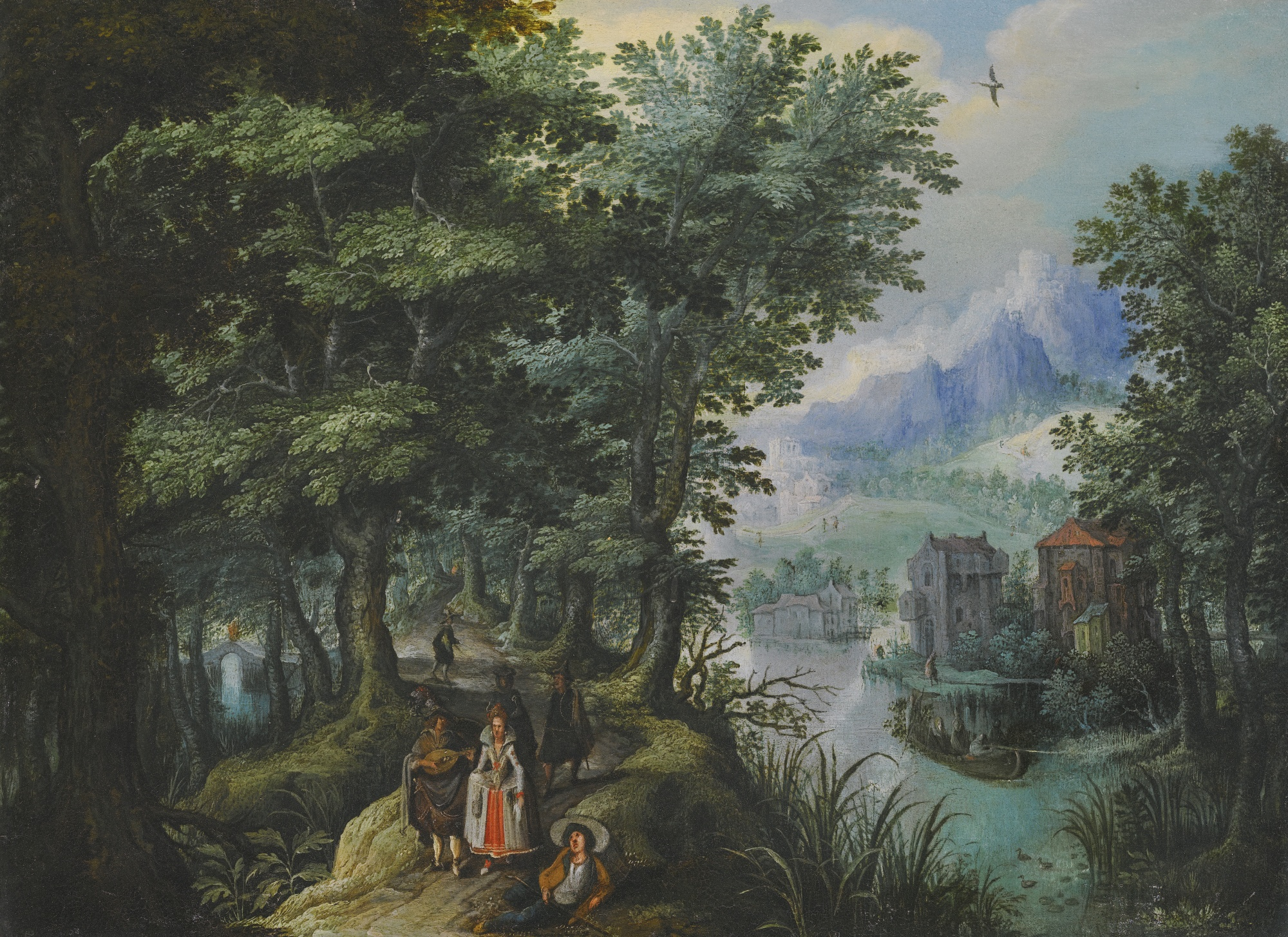 This image is available from the Netherlands Institute for Art Historyunder digital ID 281640. This tag does not indicate the copyright status of the attached work. A normal copyright tag is still required. See Commons:Licensing for more information.